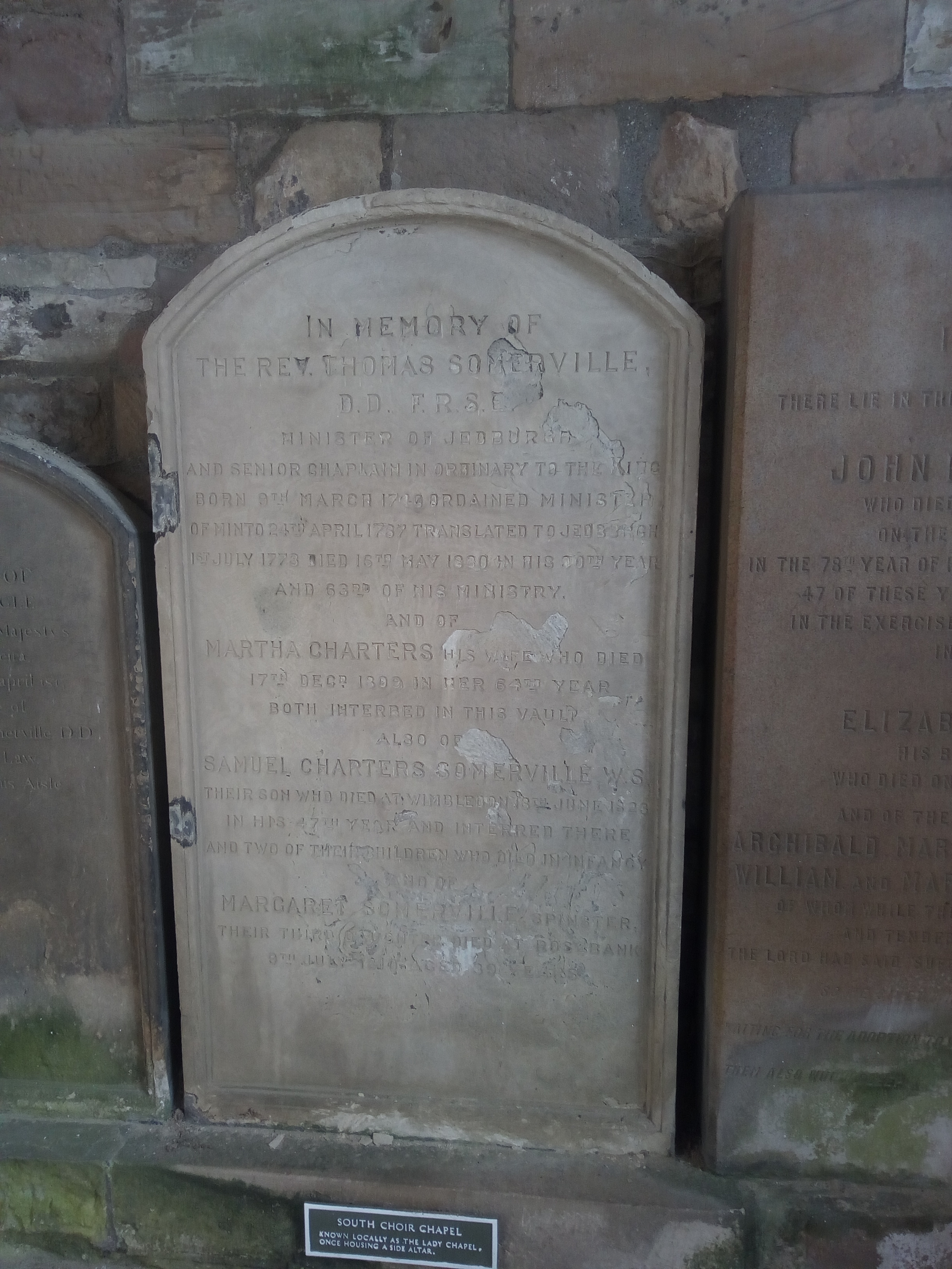 Jedburgh Abbey memorial August 2018 in the Scottish borders